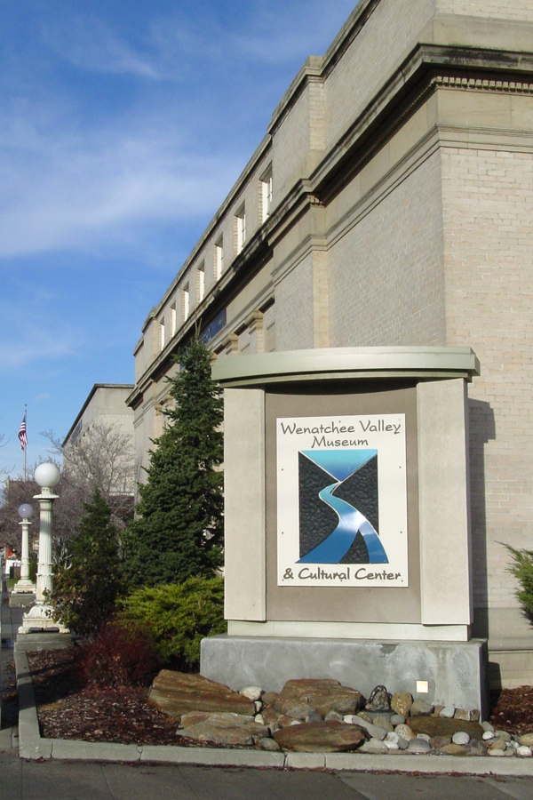 Wenatchee Valley Museum & Cultural Center The museum is the former post office and annex in downtown Wenatchee, Washington. The two buildings are listed on the National Register of Historic Places.